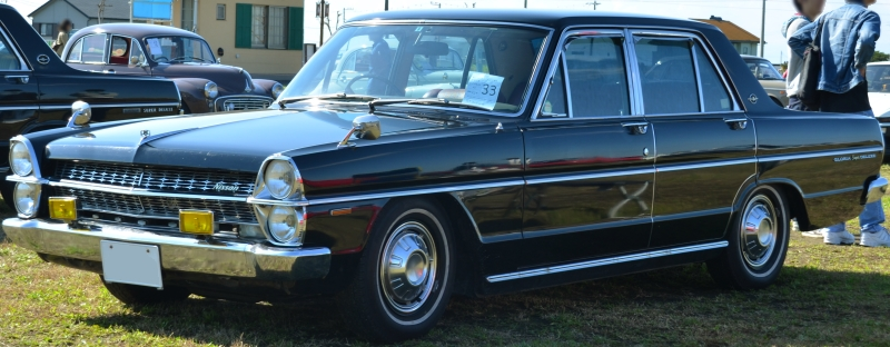 Nissan Gloria Super Deluxe